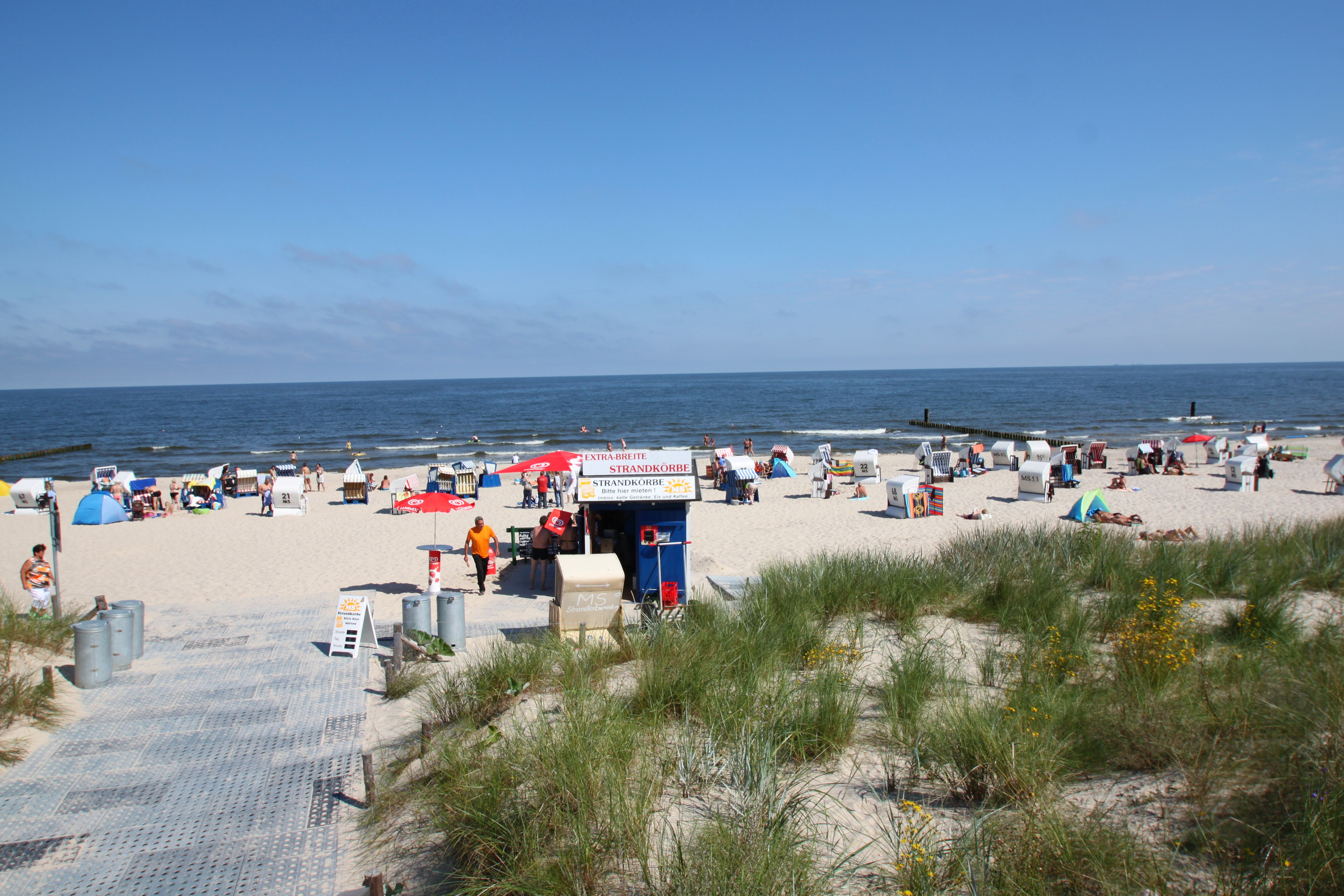 View from Uferpromenadeto beach of Ückeritz